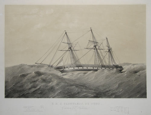 HMS Dauntless, 33, Guns. Captain E.V. Halsted. Designed and built by John Fincham, Esq. T G Dutton, lithograph, published by Day & Son, Lithographers to The Queen, c. 1855. From Grosvenor Prints This image has been uploaded to illustrate the article on HMS Dauntless.